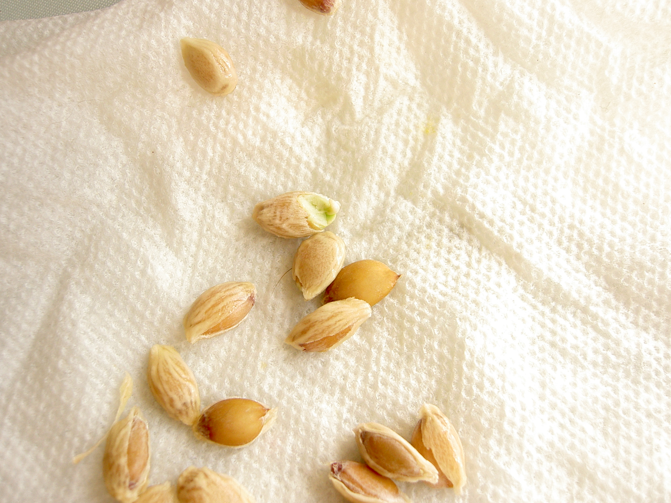 Assortment of scarified and unscarified orange (fruit) seeds